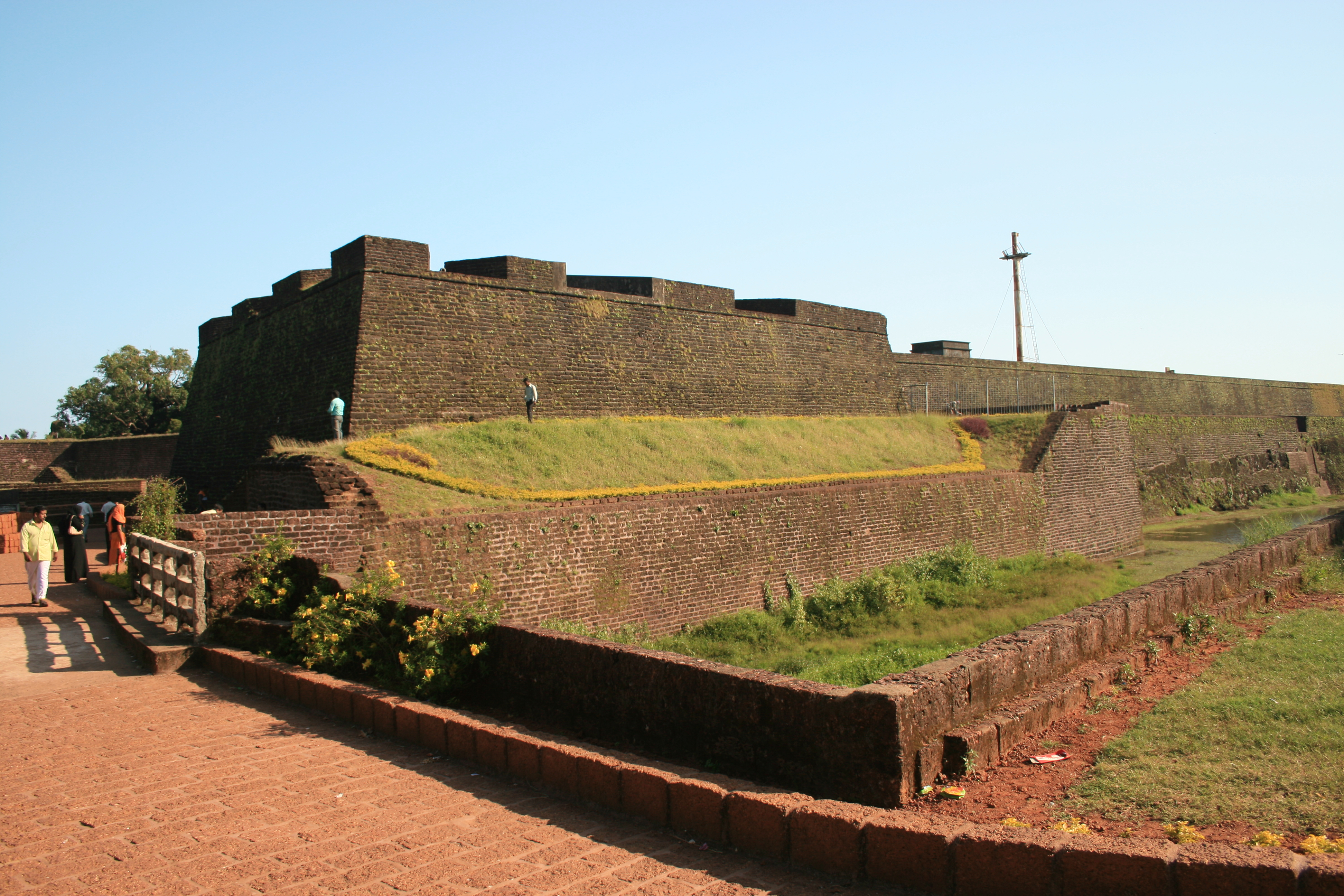 Exterior view of the Saint Angelo Fort at Kannur, Kerala